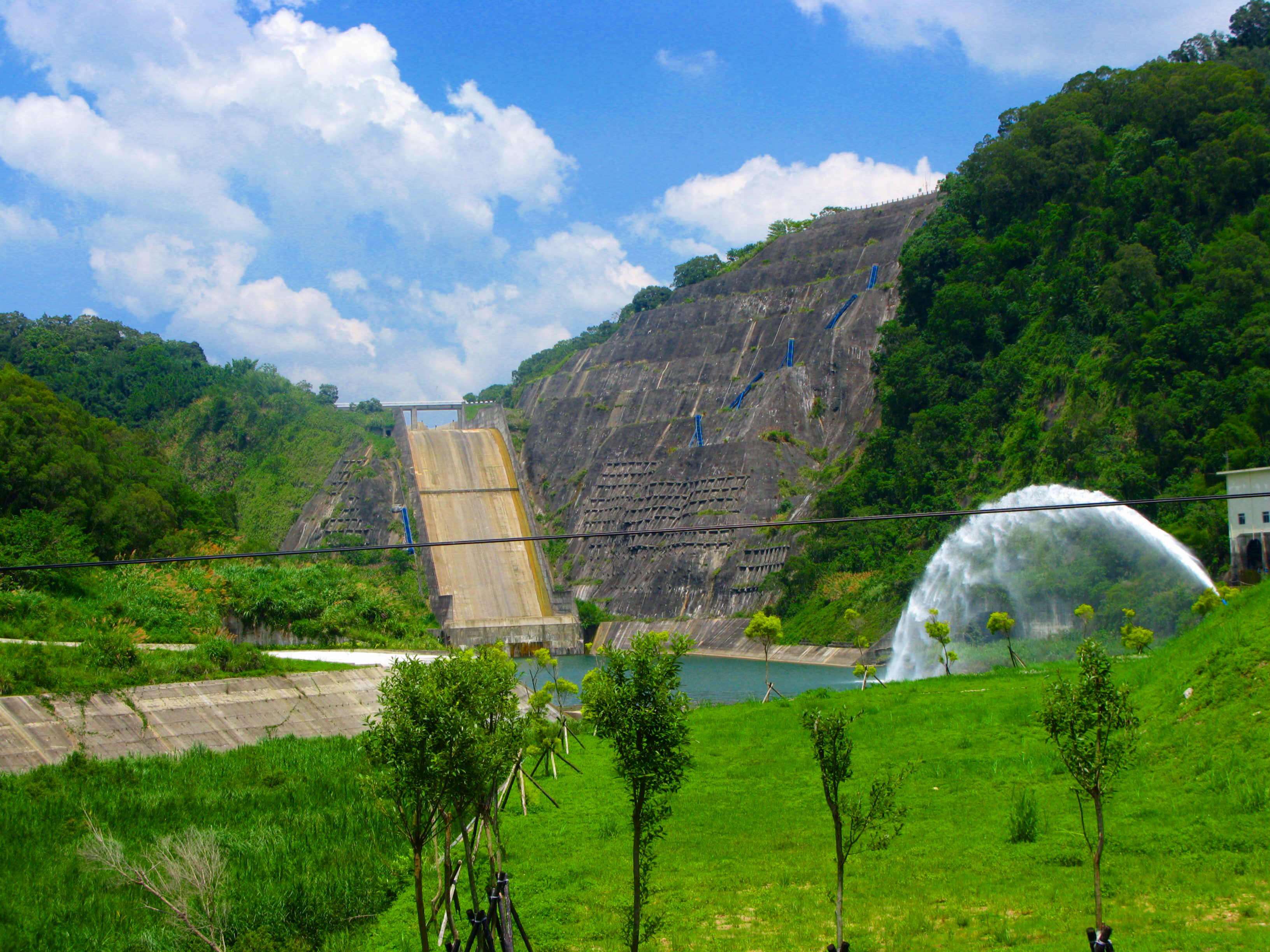 The spillway of the Li-Yu-Tan (Carp Lake) Reservoir, located in Sanyi Township, Miaoli County, Taiwan.